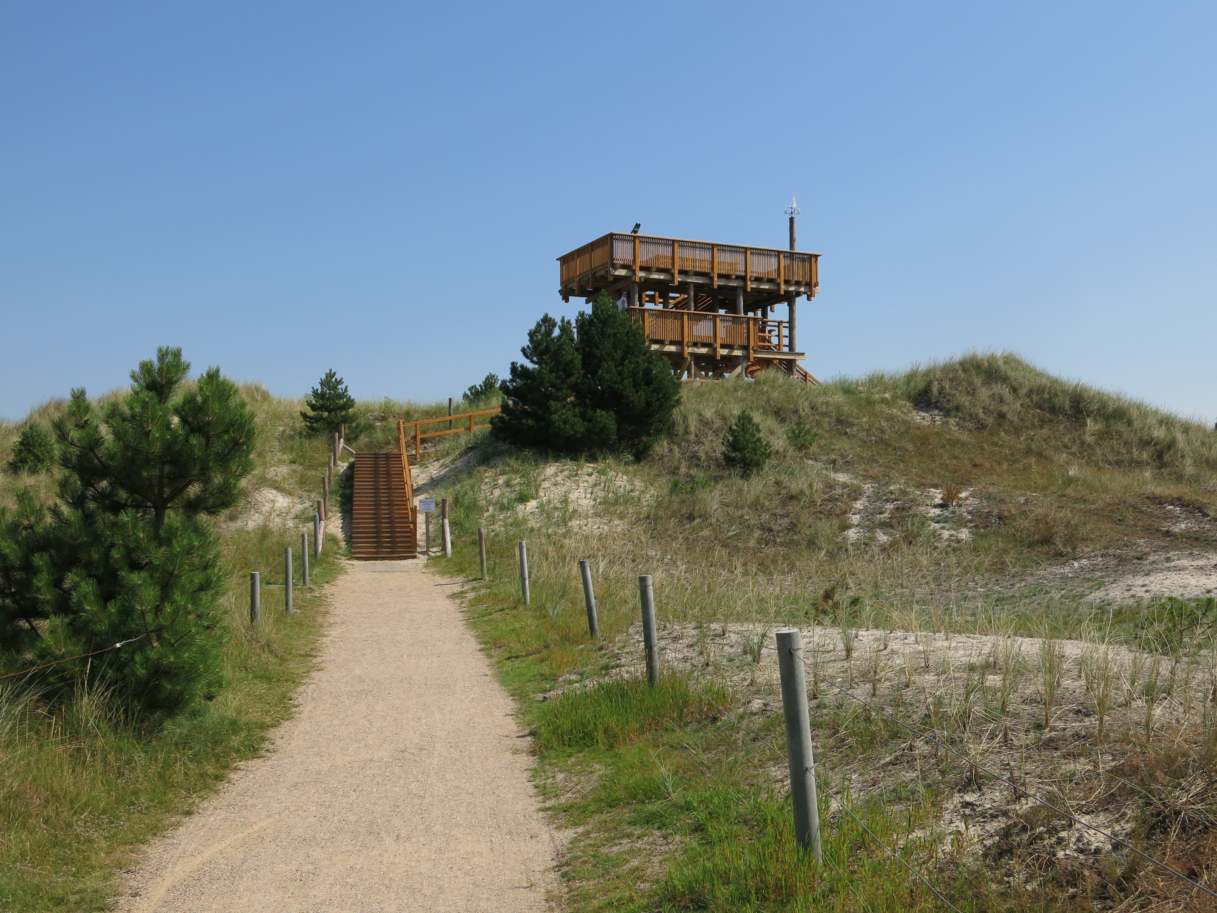 Lookout-tower in the dunes near Sankt Peter Ording